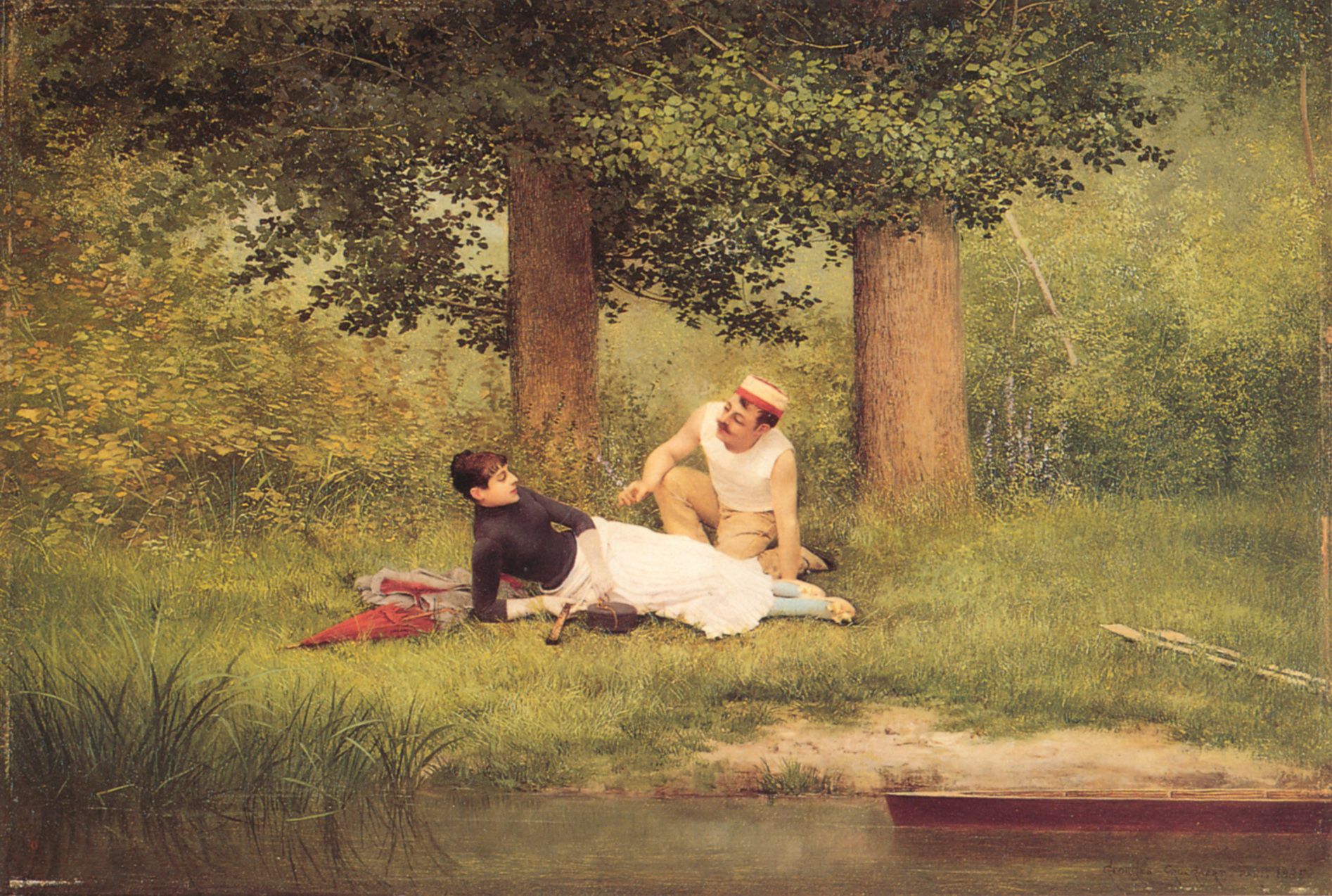 The Flirtation